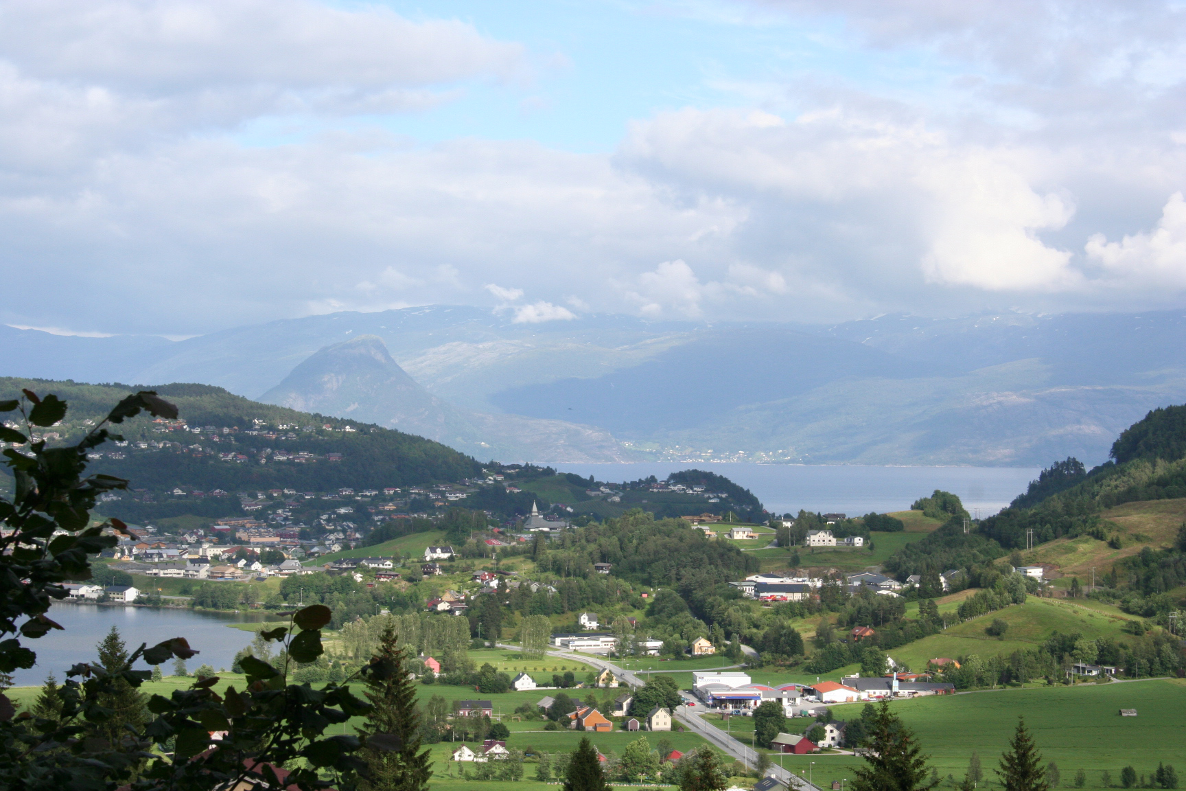 Norheimsund (originally uploaded via this edit)